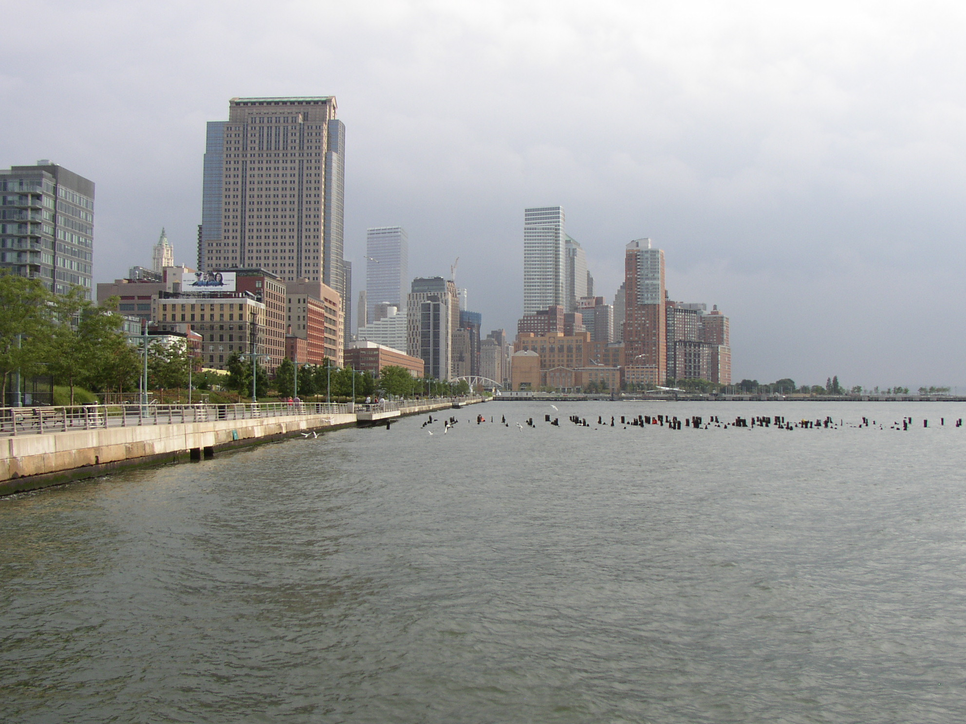 Hudson River and Hudson River Park from Holland Tunnel Pier